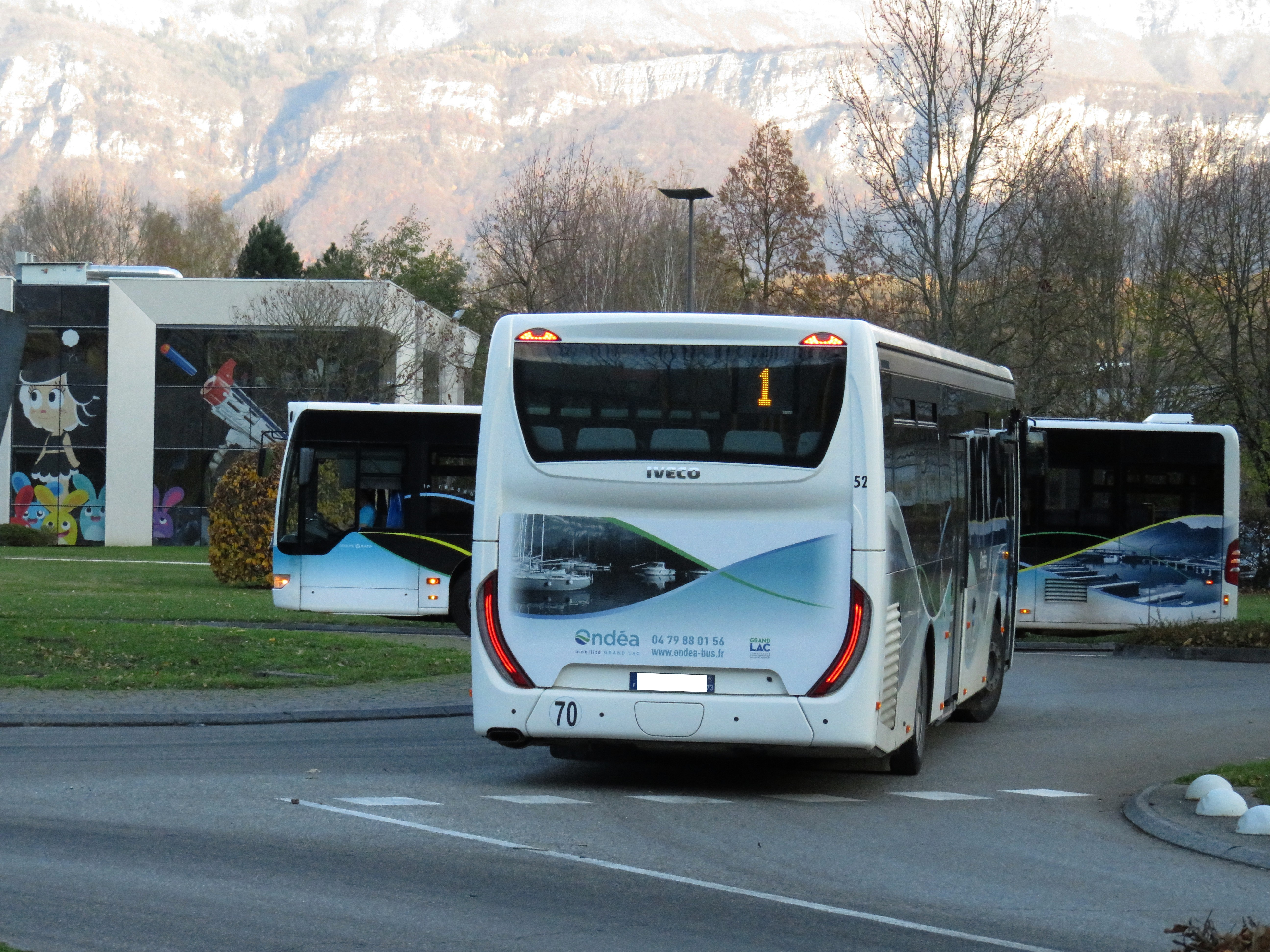 An Iveco Crossway LE (n°51 of the French agglomeration community Grand Lac) and a Mercedes-Benz Citaro C1 Facelift (n°36 of the French agglomeration community Grand Lac) running on Ondéa’s line 1 — Plage, Le Bourget-du-Lac↔Pont Rouge, Aix-les-Bains — in the campus of Savoie Technolac (Le Bourget-du-Lac, France) — on November 14, 2017.